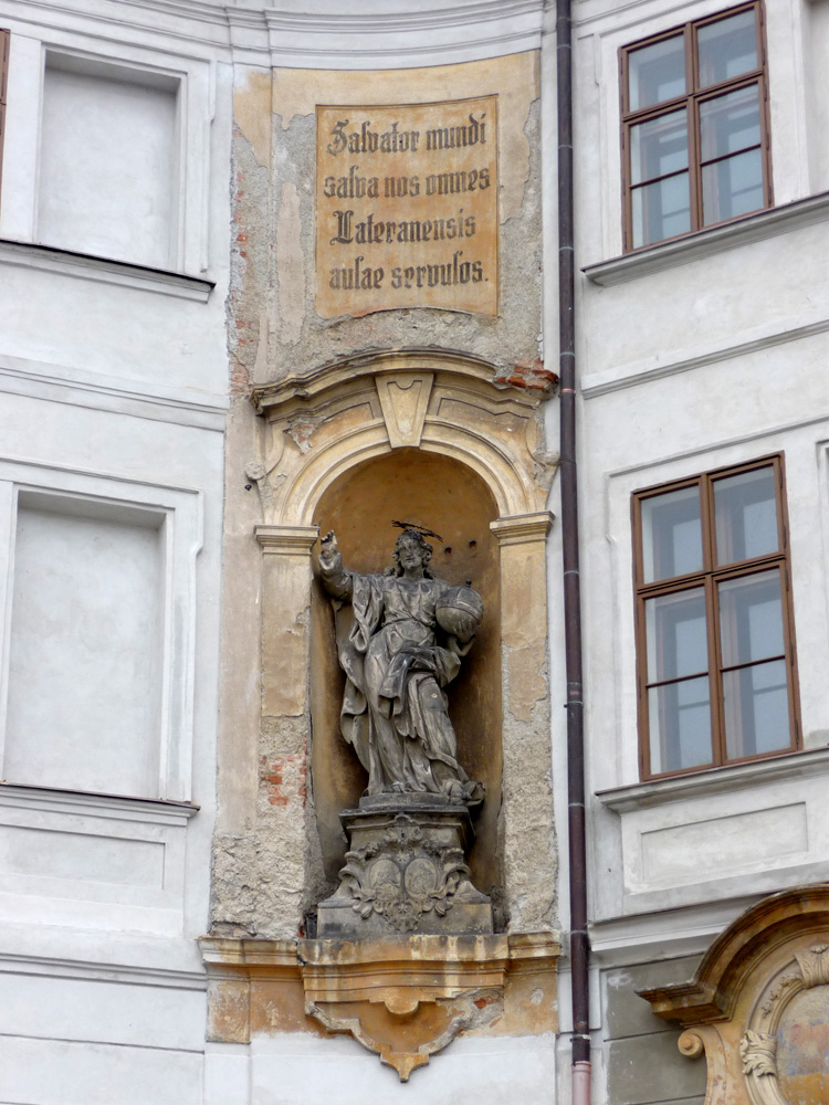 Sternberk, Czech Republic. Statue Salvator Mundi dated on pedestal 1744. Below the coato of arms of provost Jan Josef Glätzl (1734 - 1757) with initials I I G = P S.